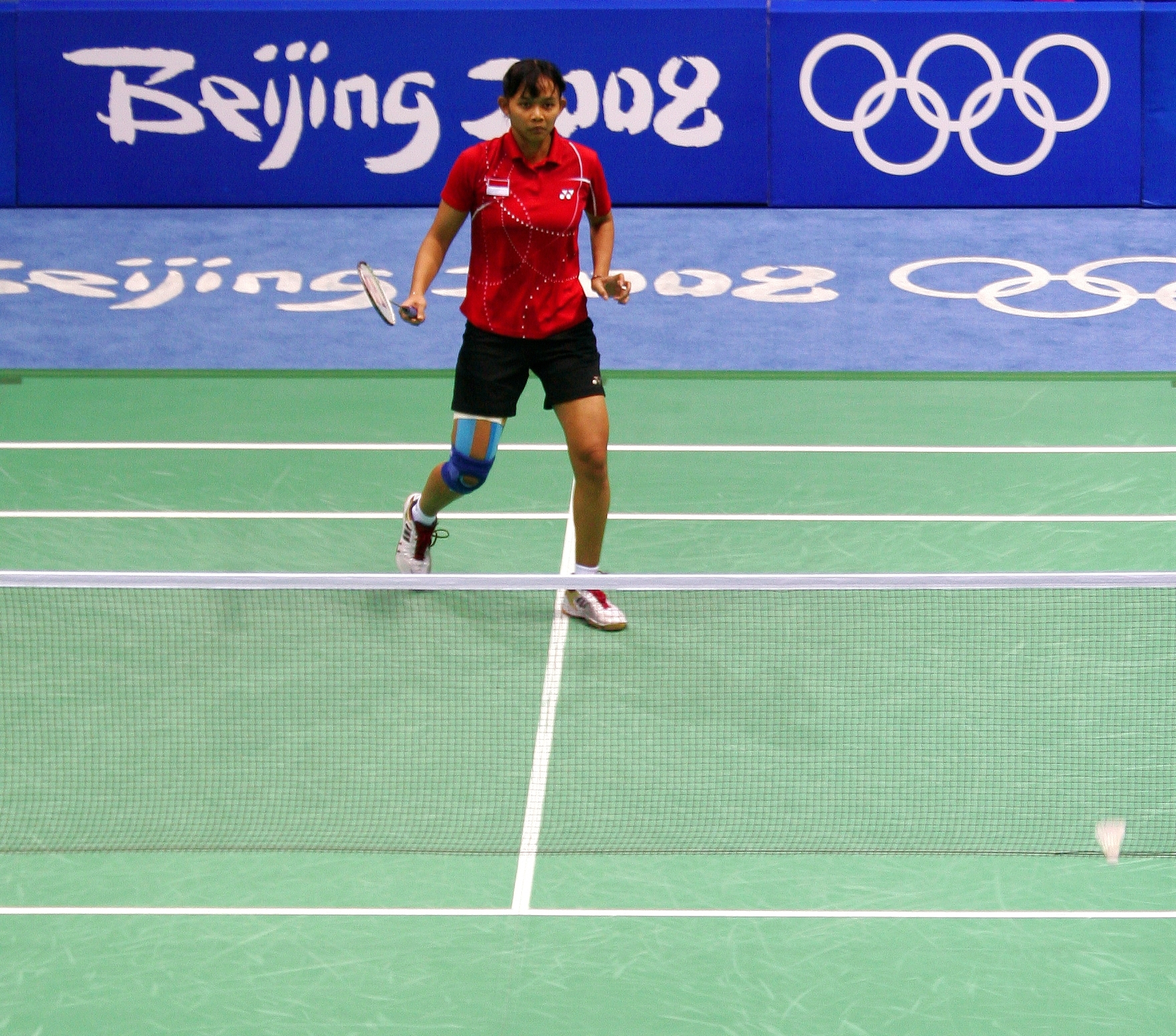 Maria Kristin Yulianti of Indonesia. Yulianti went on to win bronze.